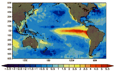 Chart of abnormal Pacific ocean surface temperatures [ºC] observed in December 1997 during the last strong El Niño.